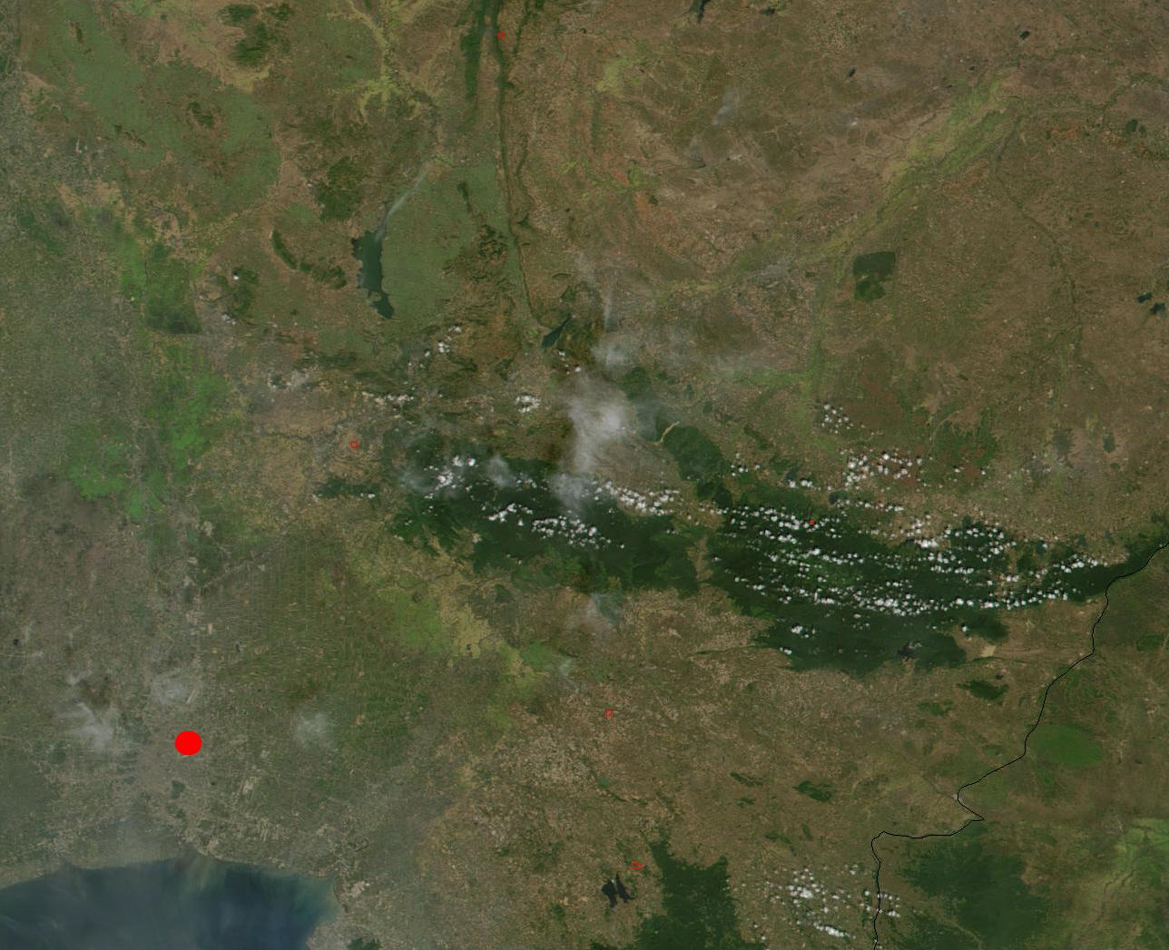 Forest of Khao Yai and surrounding reservation area, Thailand. Bangkok is highlighted by a red dot. This forest, a UNESCO World Heritage site, encompasses several national parks.